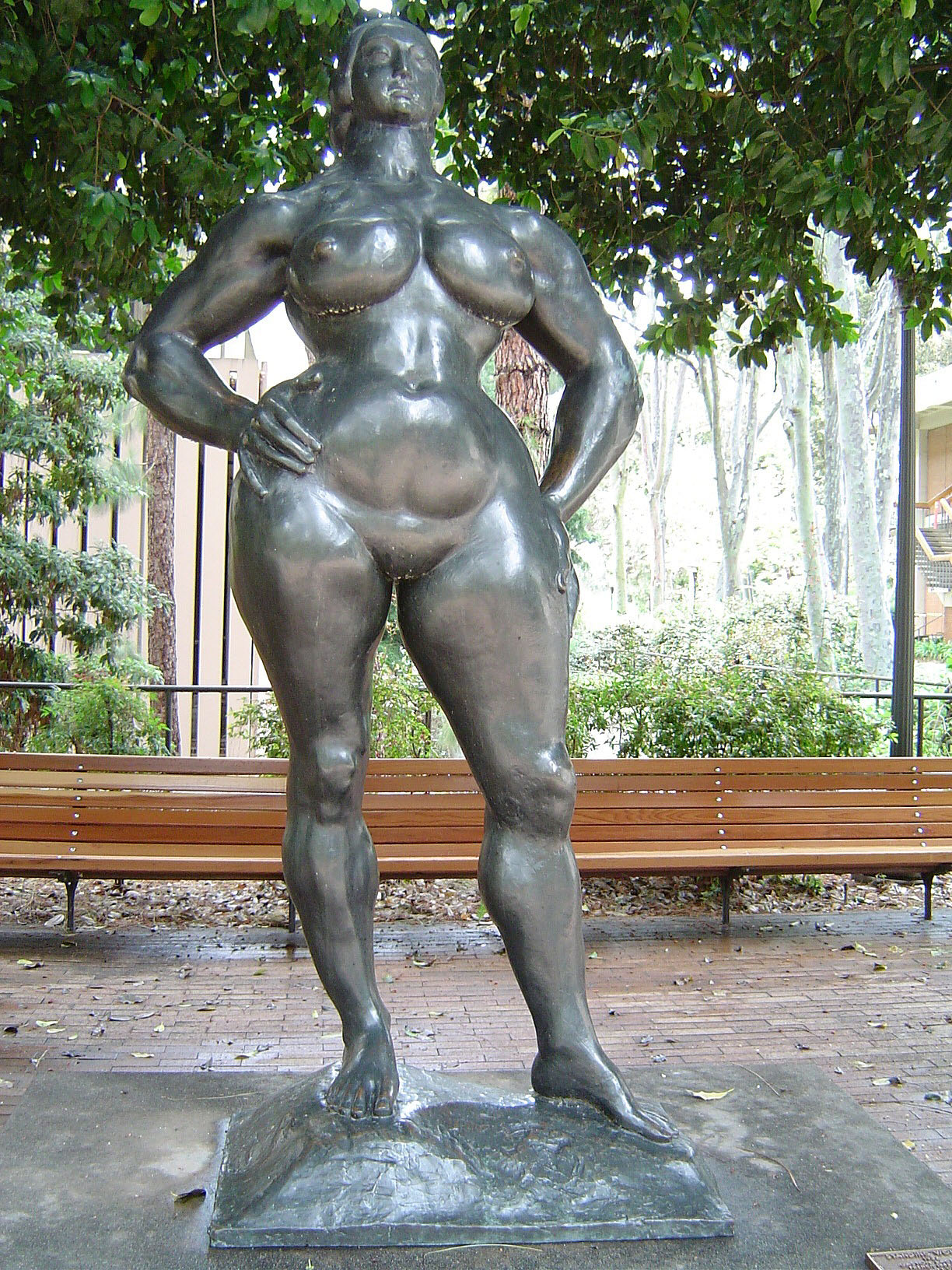 Standing Woman by Gaston Lachaise (1932) at UCLA's Franklin D. Murphy Sculpture Garden. Photographed and uploaded by user:Geographer.)